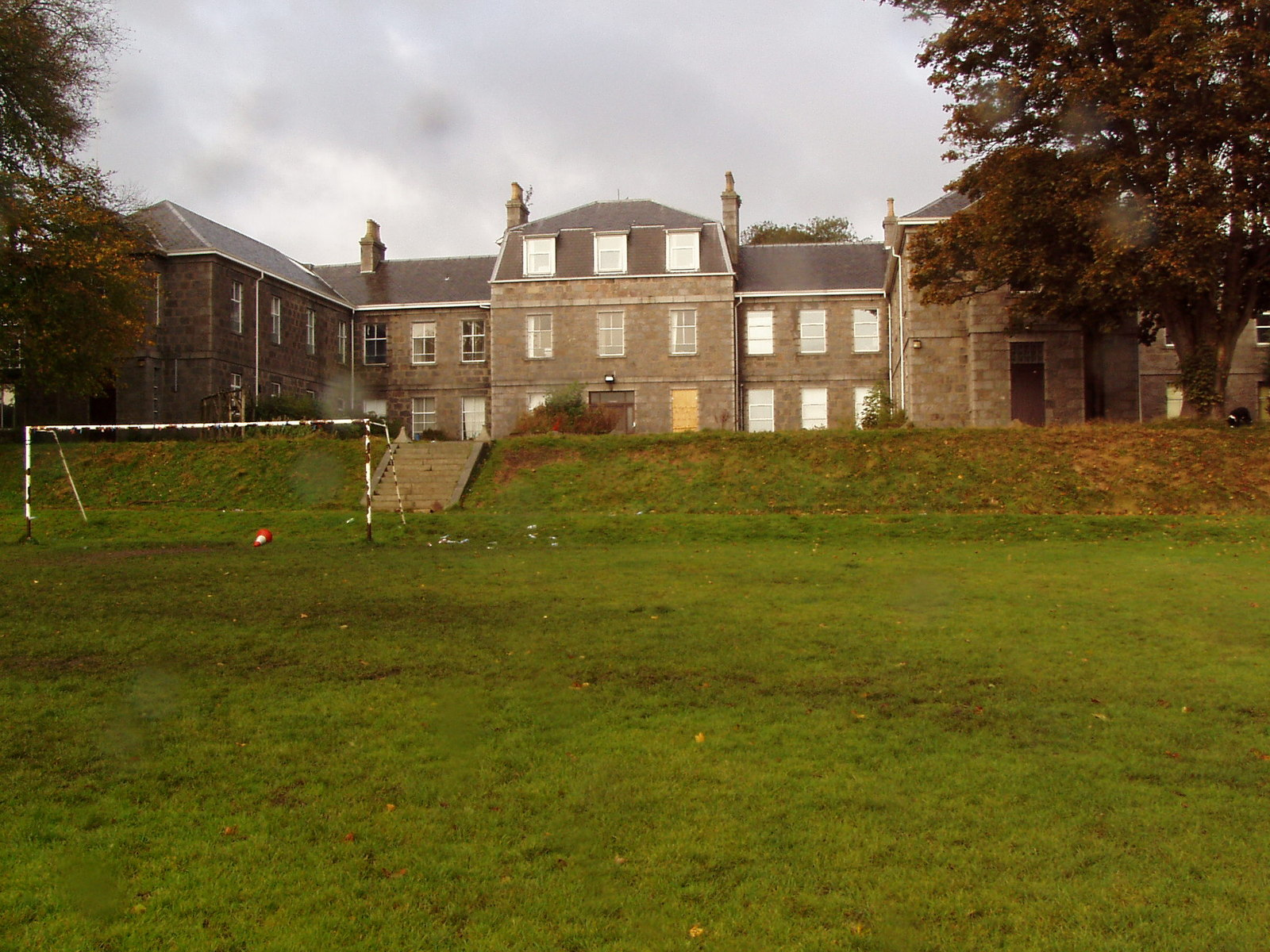 Frontage Oakbank School